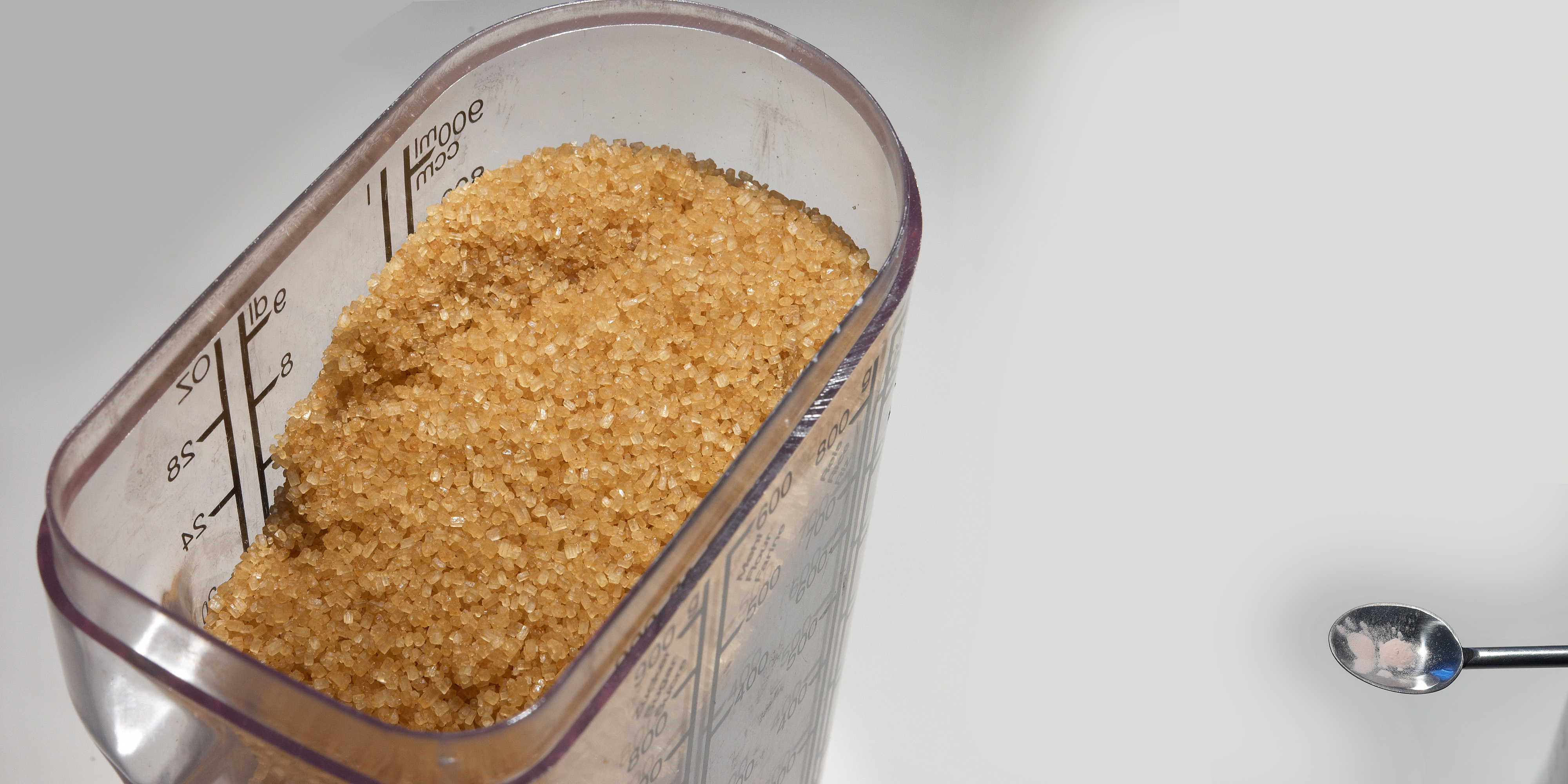 Image to illustrate that 1 kg of particles of 1 mm3 has the same surface area as 1 mg of particles of 1 nm3